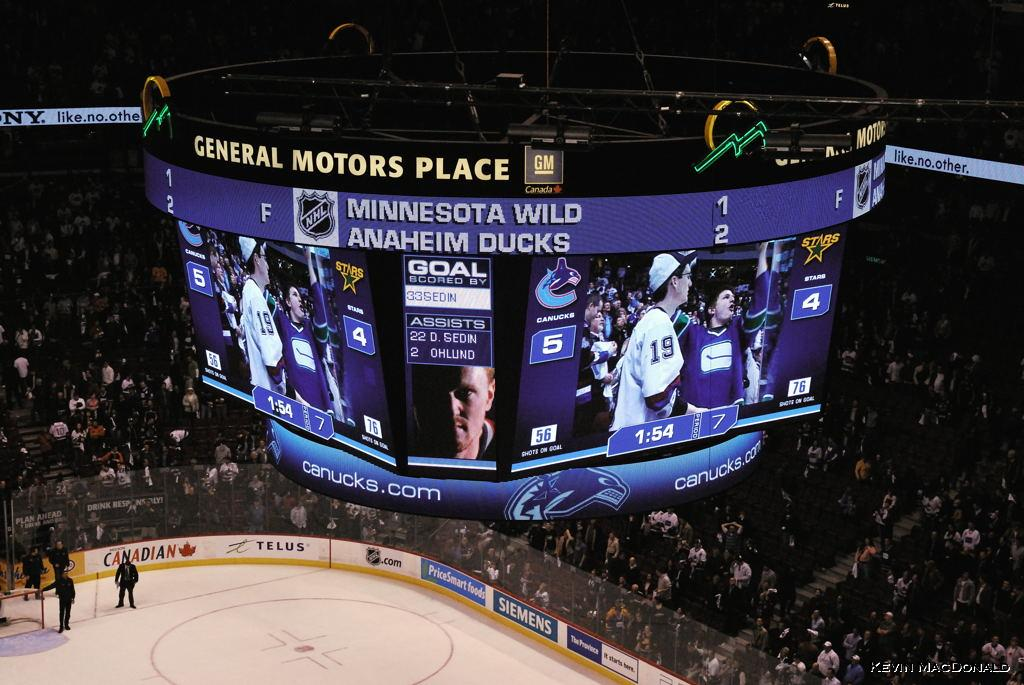 Close up of the New Board after a VERY long game.